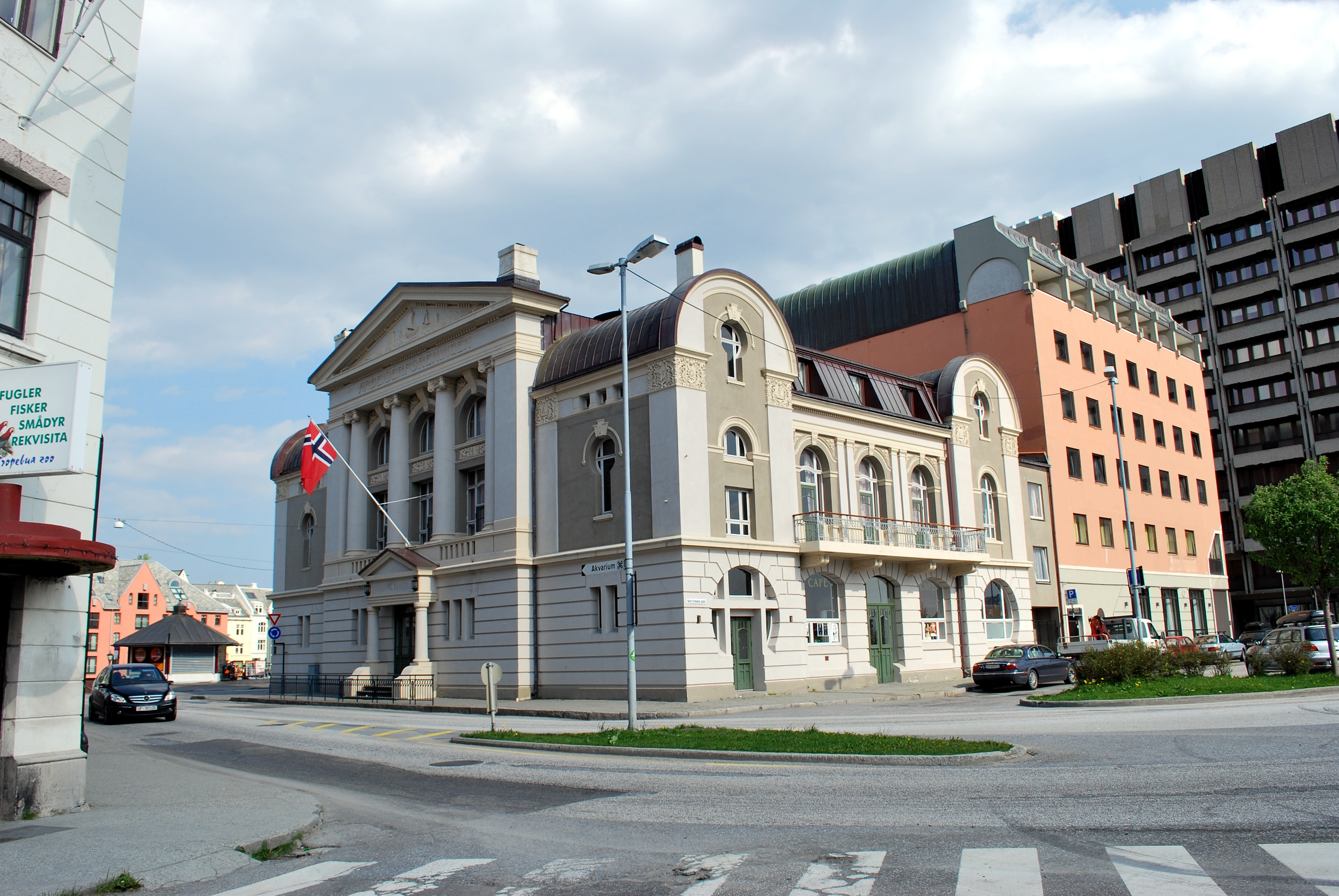 Arbeideren, Lorchenesgata 2, Ålesund.